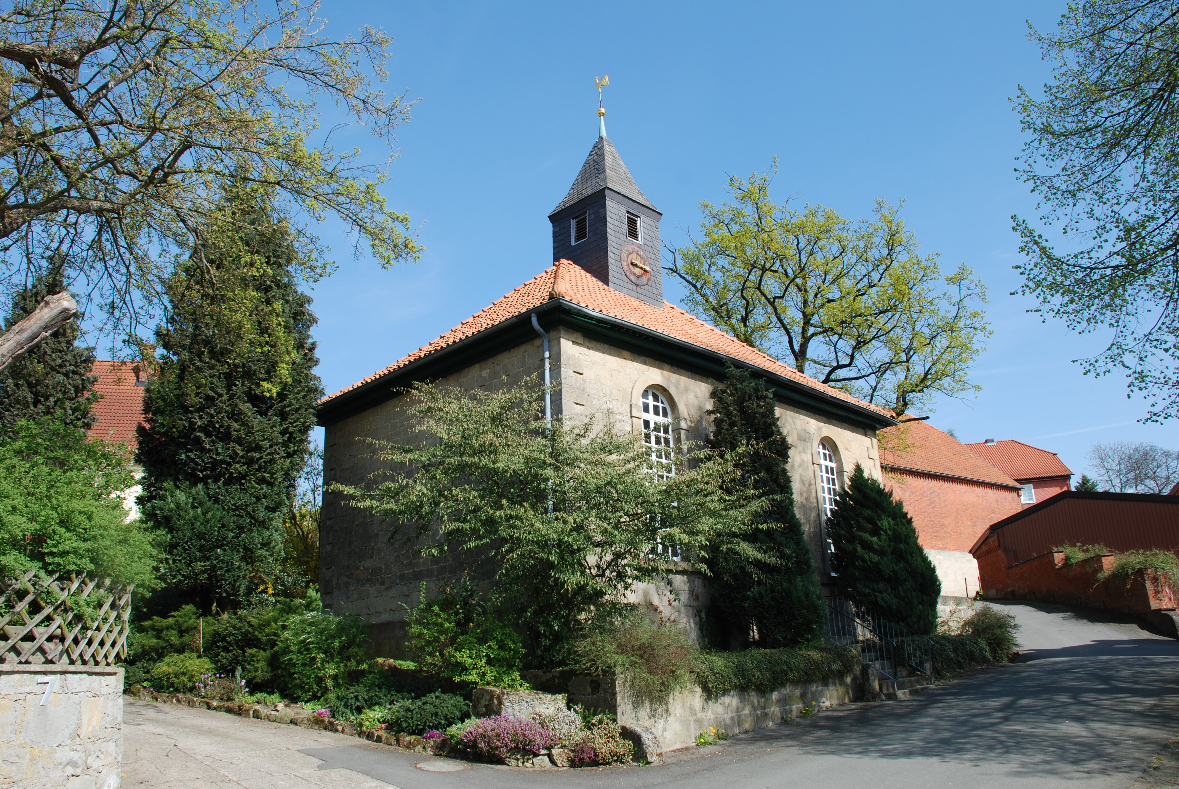 church in Levedagsen, Lower Saxony, Germany